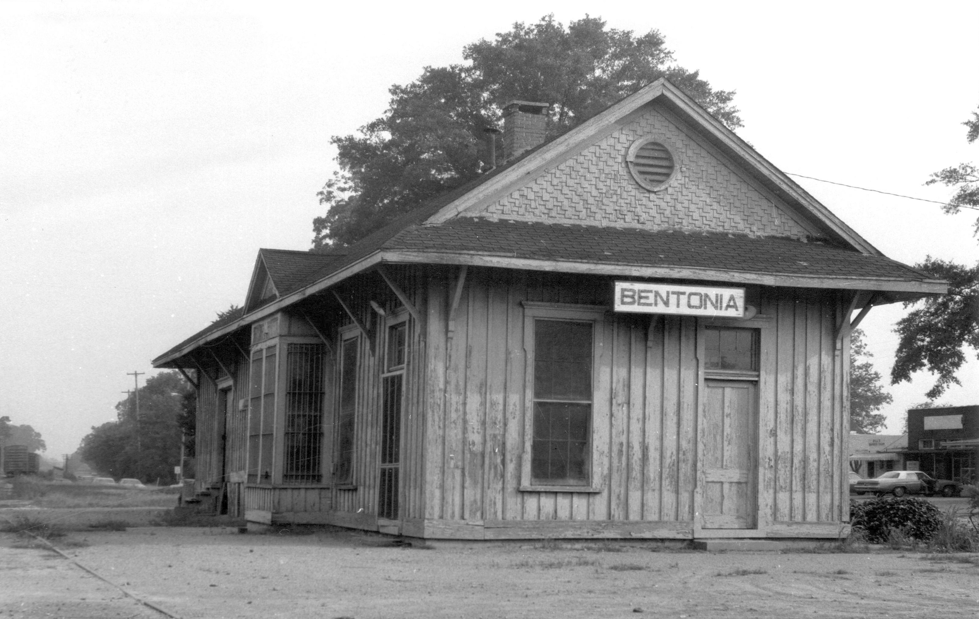 Collection: Railroad Depot Postcard Collection Call number: PI/1987.0009 System ID: 77329 Illinois Central Depot, Bentonia, Miss. Please see our profile page for information on ordering. Scanned as tiff in 2008/11/10 by MDAH. Credit: Courtesy of the Mississippi Department of Archives and History